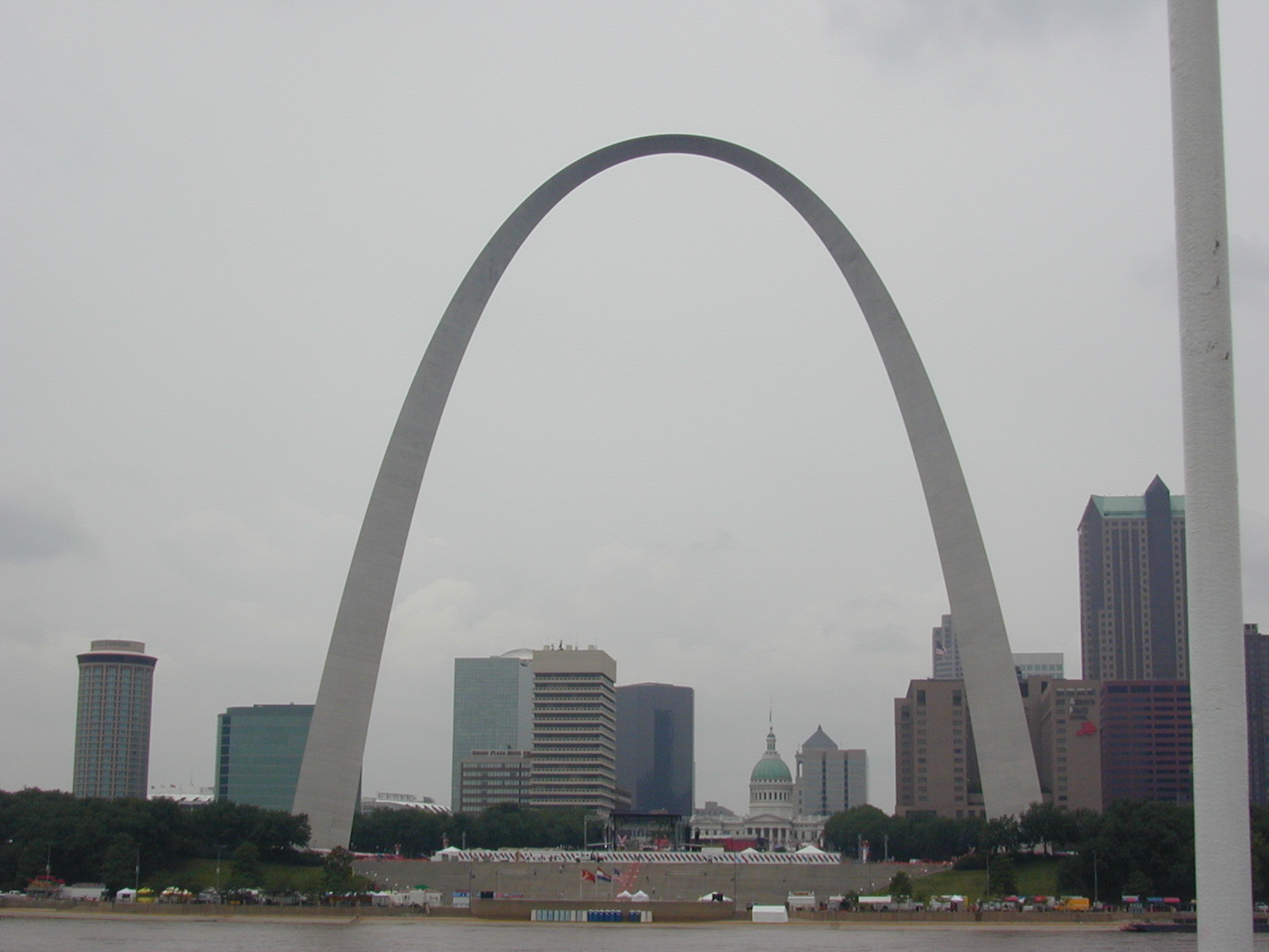 The Gateway Arch, part of the Jefferson National Expansion Memorial in St. Louis, Missouri